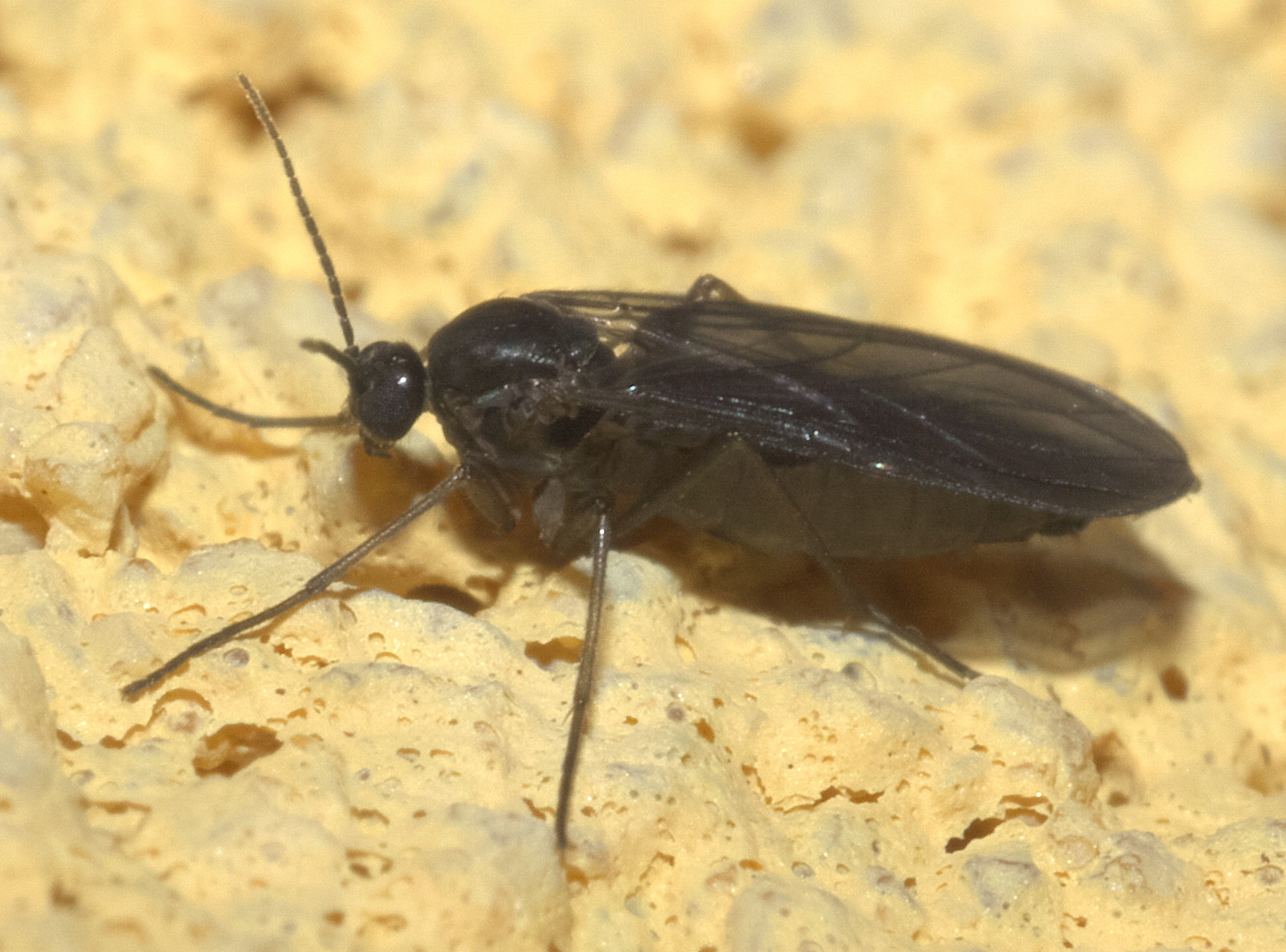 Sciaridae, dark-winged fungus gnats